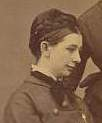 Elsbeth von Nathusius, author